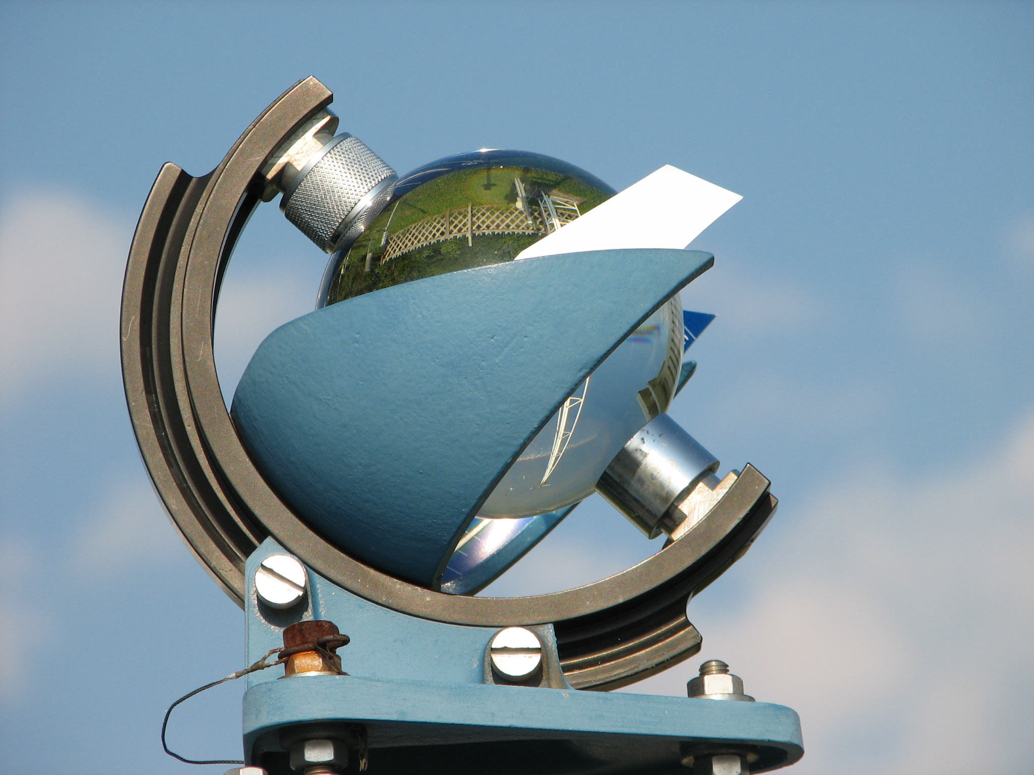 Sunshine recorder (also known as a heliograph), part of instruments of weather station on mountain Lisca (948 m) near Sevnica, Slovenia